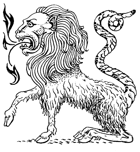 Line art drawing of a chimera.